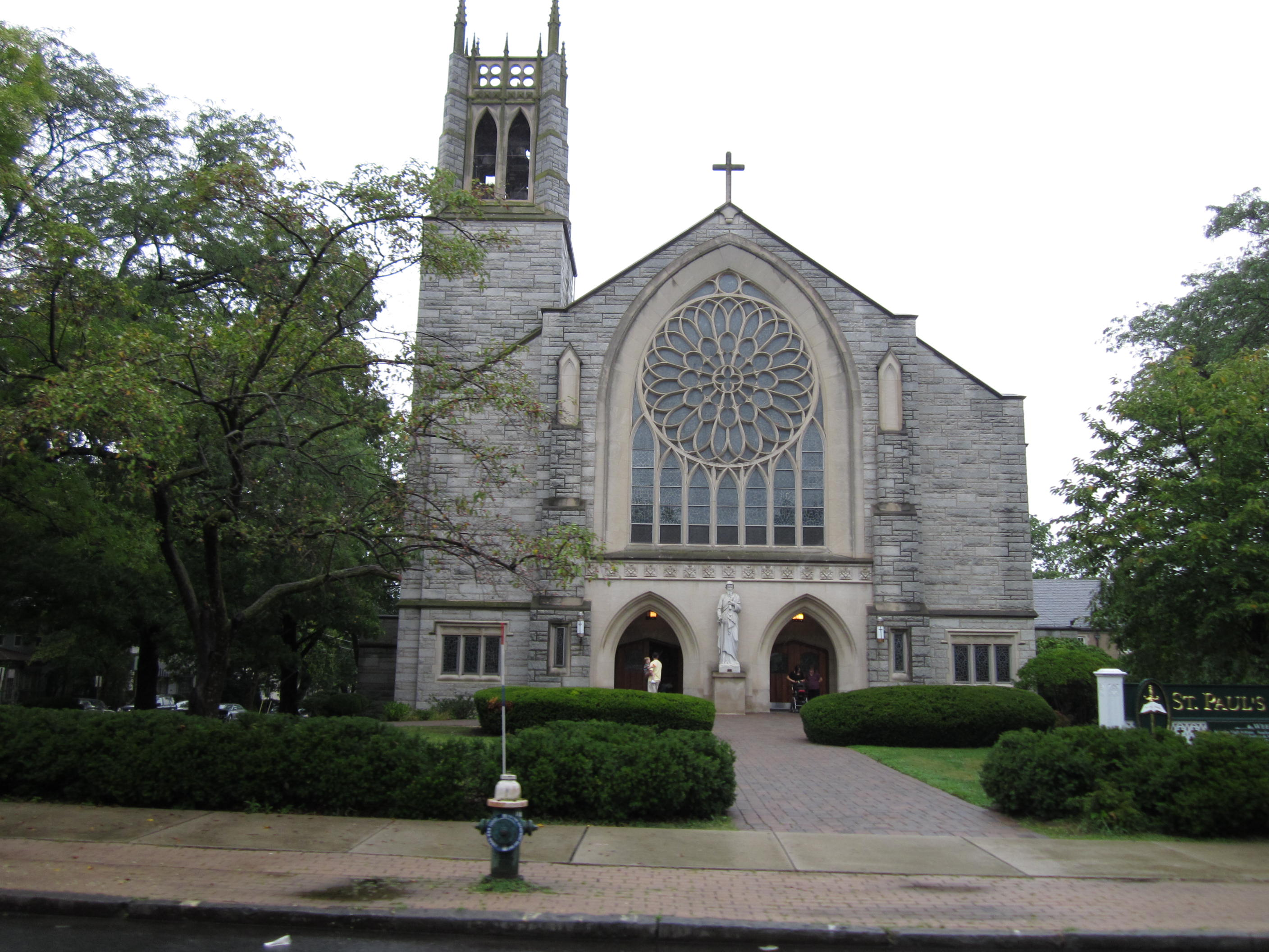 St. Paul's Catholic Church in Princeton, New Jersey